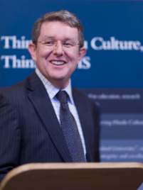 Shaunaka Rishi Das 2009